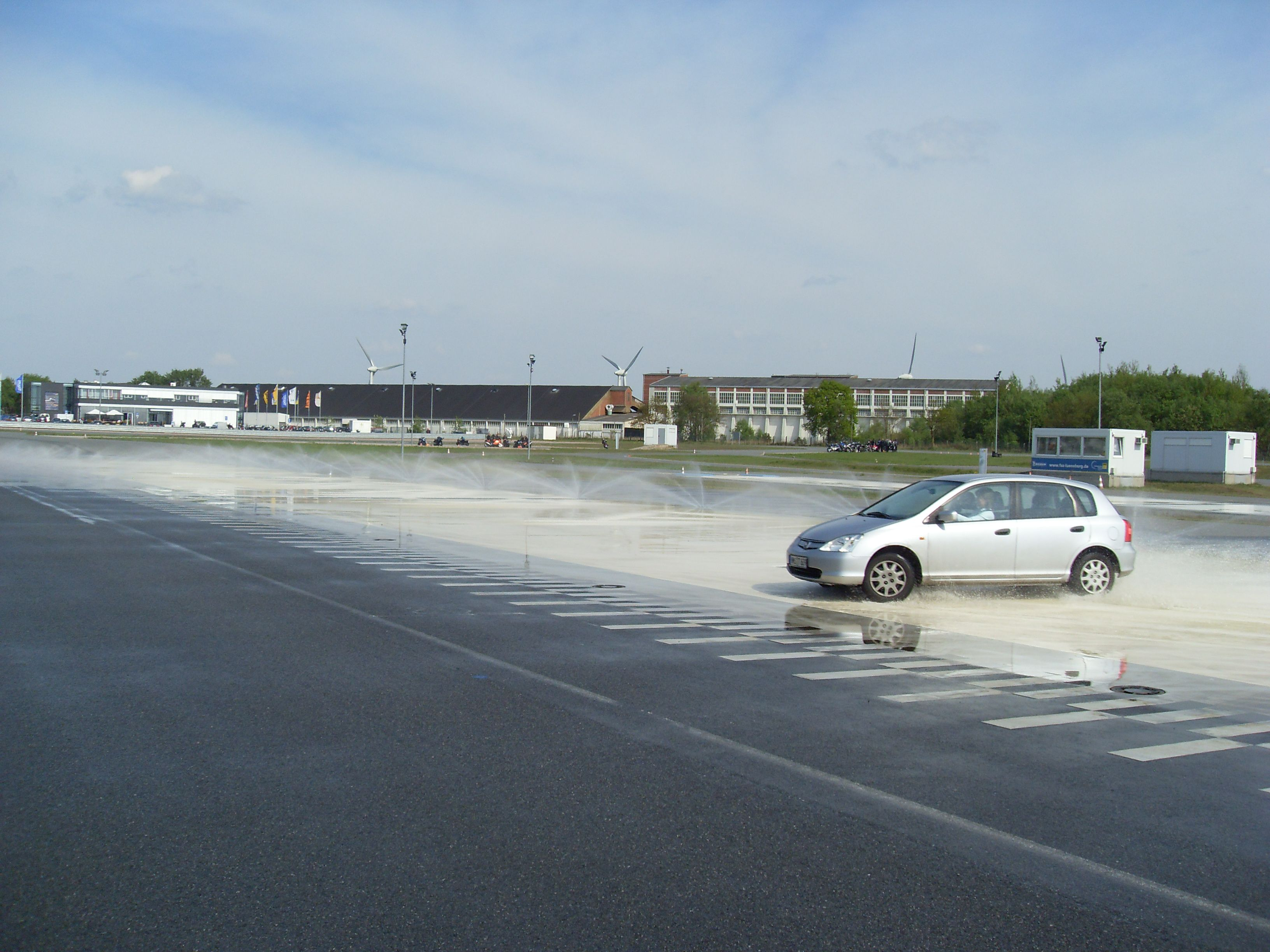 Driver training on the ADAC site in Lüneburg.